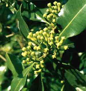 Spice of Anakkara